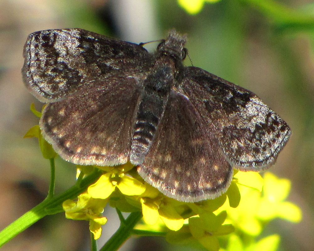 Dreamy Duskywing (Erynnis icelus), Ottawa, Ontario